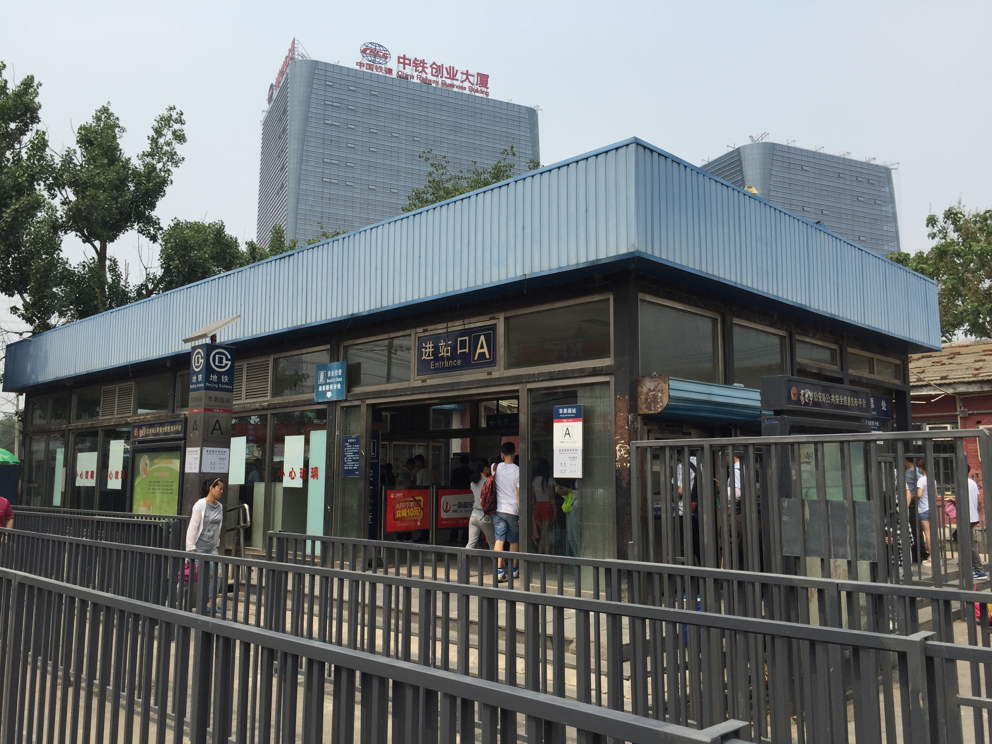 Quite simple...